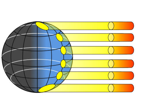 Solar Angle of Incidence Nearly all of the biomes on Earth are dictated by two factors: the amount of temperature and precipitation they receive, and these are correlated. Temperature on Earth is dependent on the solar angle of incidence, or the angle at which the light waves from the sun hit the surface of the earth. Areas of earth that are perpendicular to the sun’s rays receive more energy than other parts where the sun’s rays hit the earth at an oblique angle. Over one year, the equator receives the most amount of light energy from the sun per area; whereas the poles receive the least. At the middle latitudes there is a moderate angle of incoming light, creating moderate temperature. Solar angle of incidence is the primary determinant of global temperature patterns.